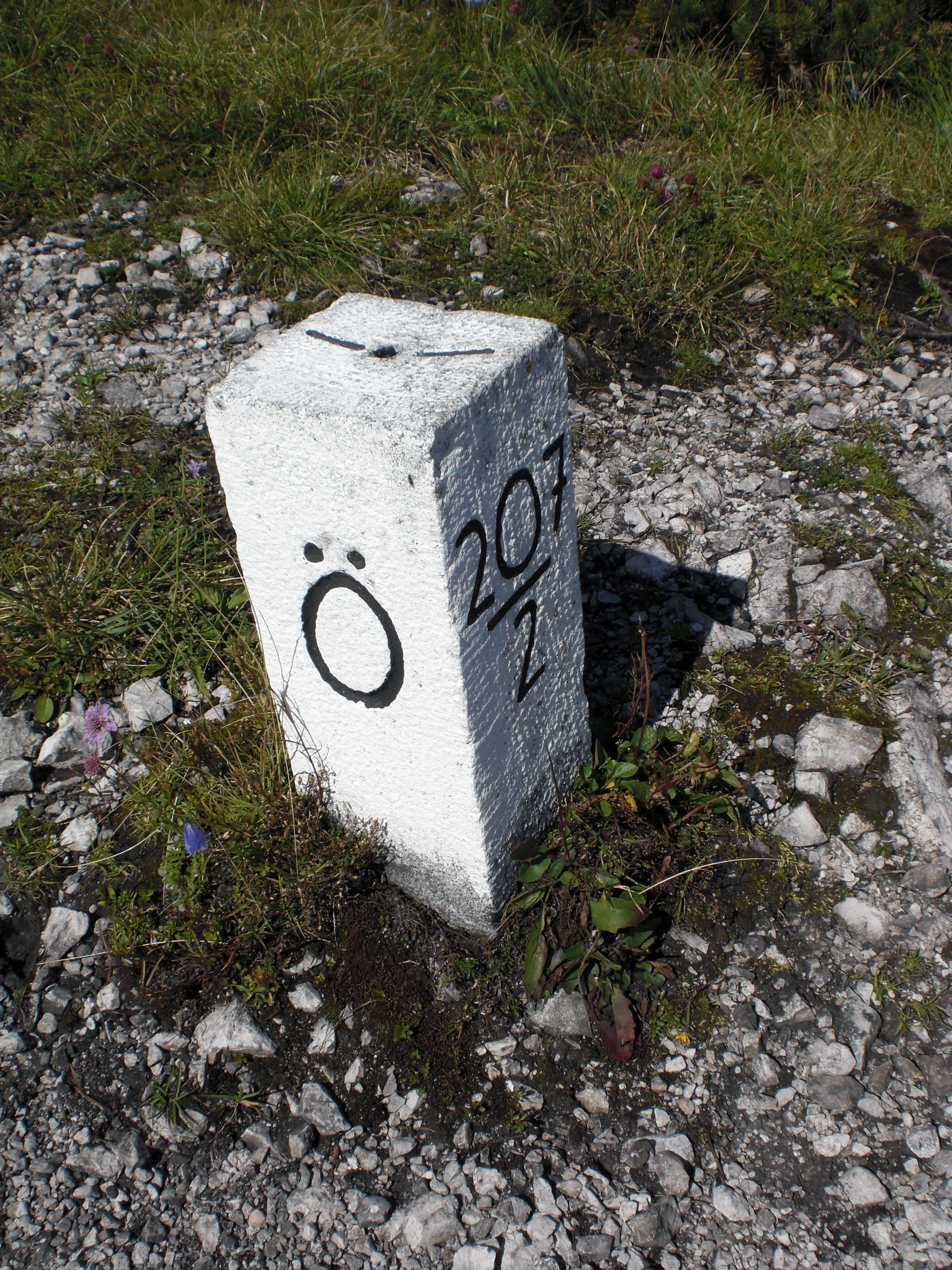 Boundary marker on the Demeljoch, a mountain at the border between Austria and Germany. The "Ö" stands for "Österreich", i.e. Austria in German. The boundary marker is located a few meters east of the cross on the top of the Demeljoch. For an image of the other side of the stone, see File:Boundary stone on the Demeljoch - 2.jpg.